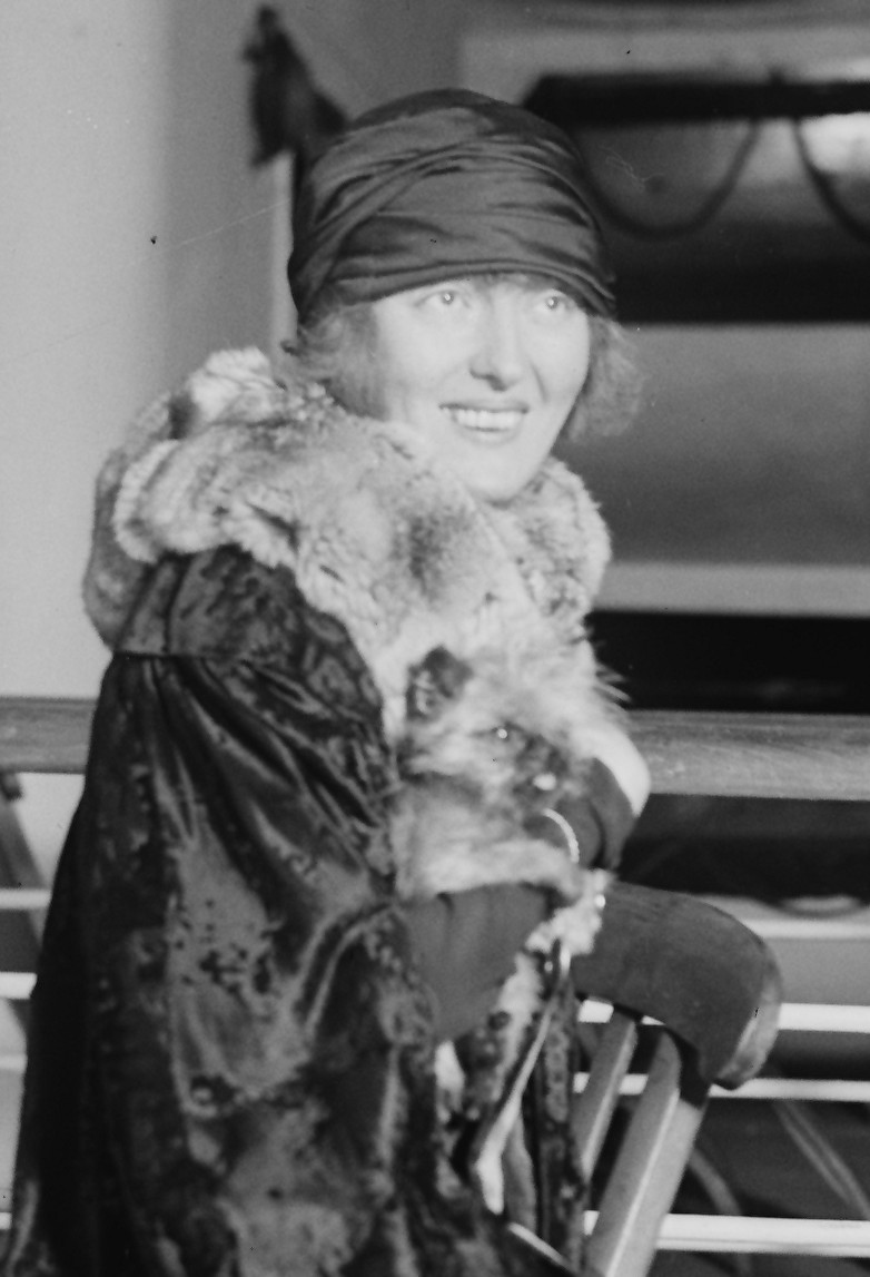 Peggy Hopkins Joyce